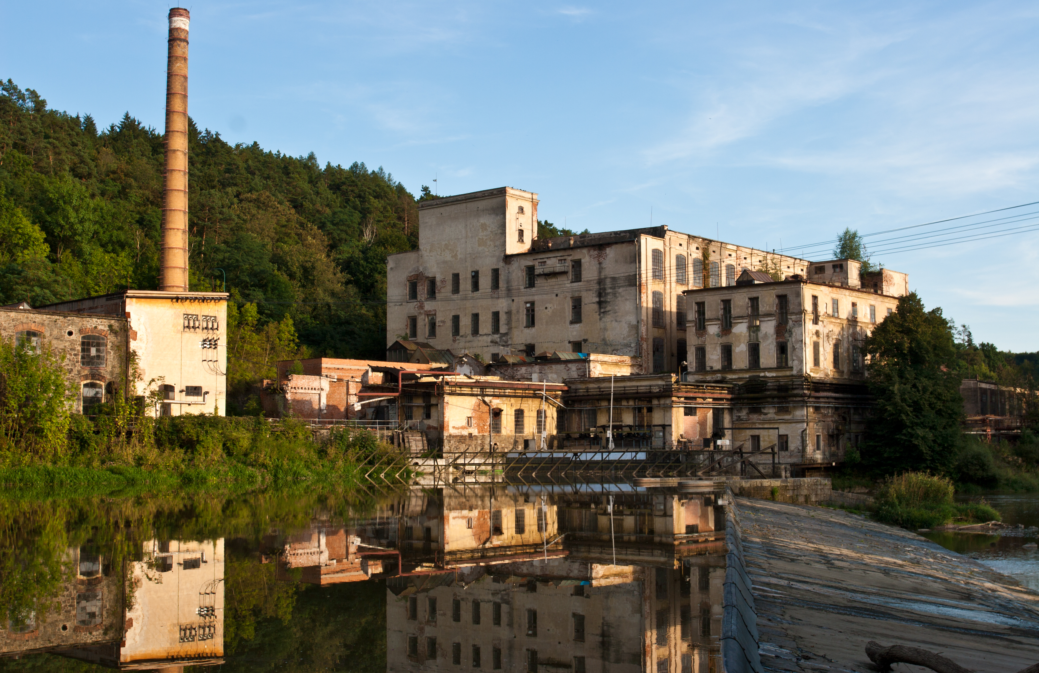 Týnec nad Sázavou